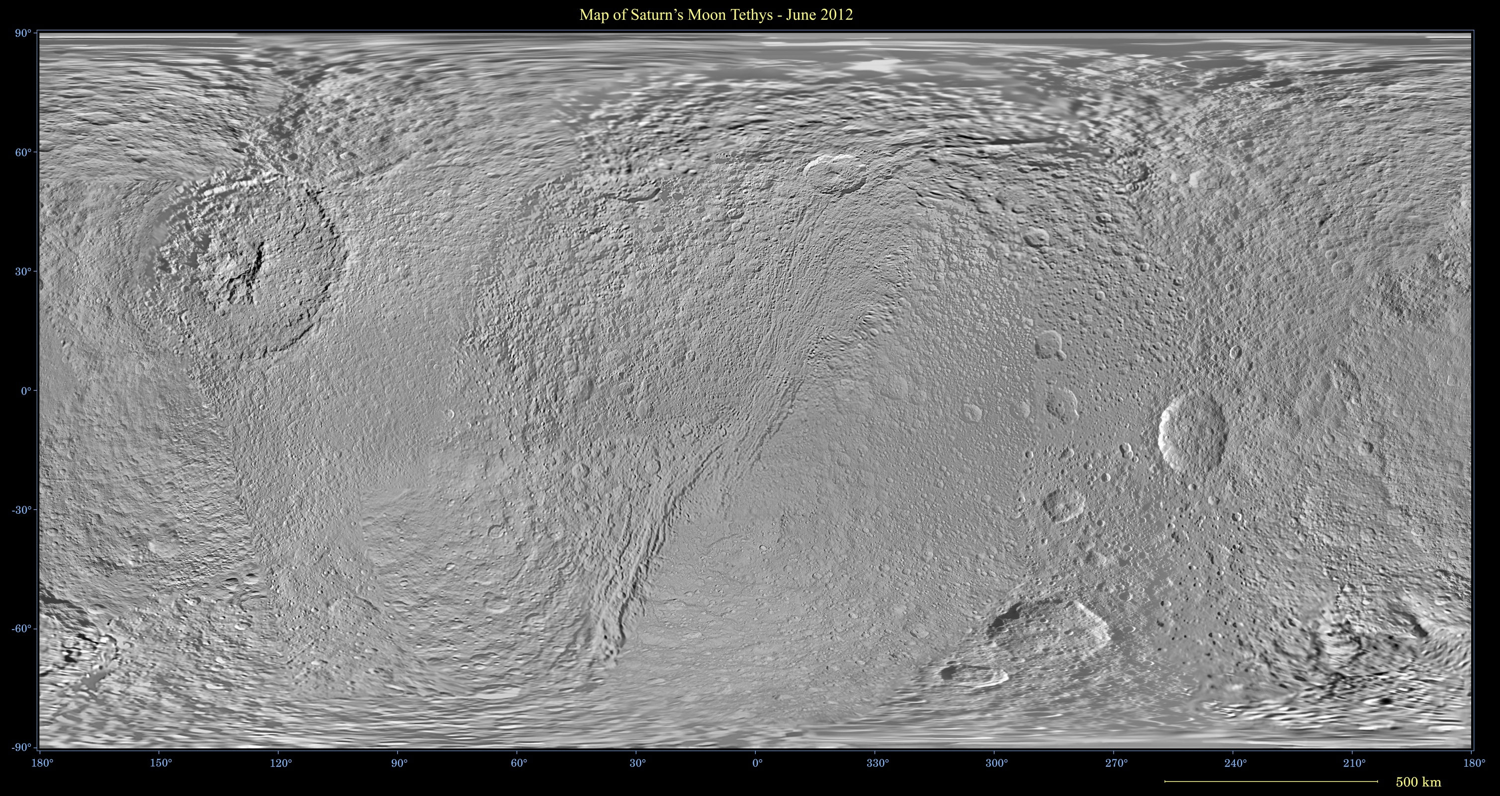 Map of Tethys - June 2012 [quarter size] This global map of Saturn's moon Tethys was created using images taken during Cassini spacecraft flybys. The map is an equidistant (simple cylindrical) projection and has a scale of 293 meters (960 feet) per pixel at the equator in the full size version. The mean radius of Tethys used for projection of this map is 536.3 kilometers (333.2 miles). The resolution of the map is 32 pixels per degree. This map is an update to the version released in February 2010. See PIA12560